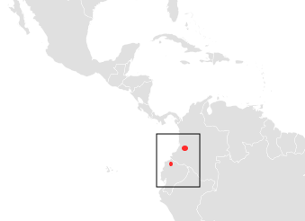 Distribution of Balantiopteryx infusca